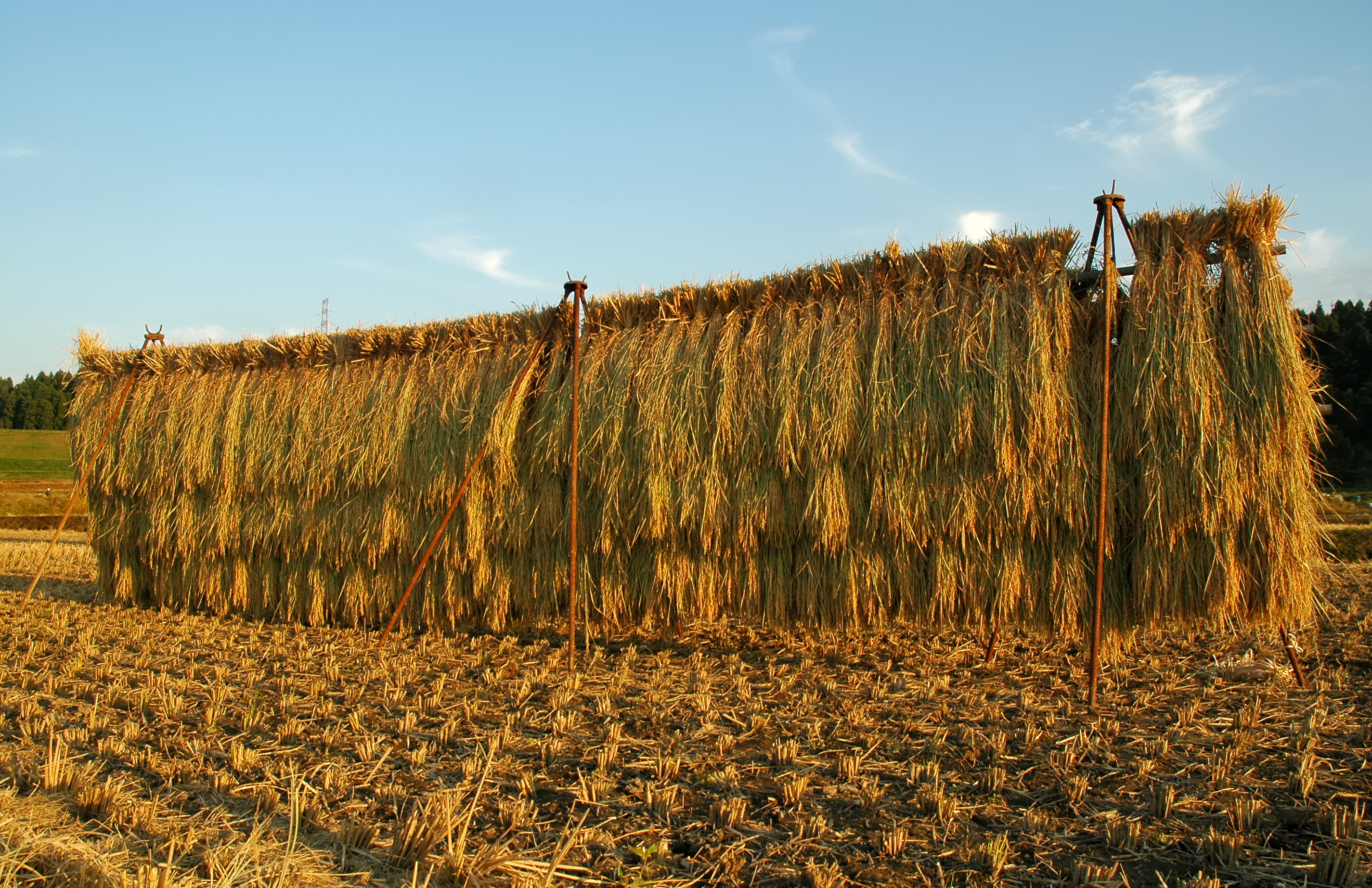 Rice drying (イネの天日干し)